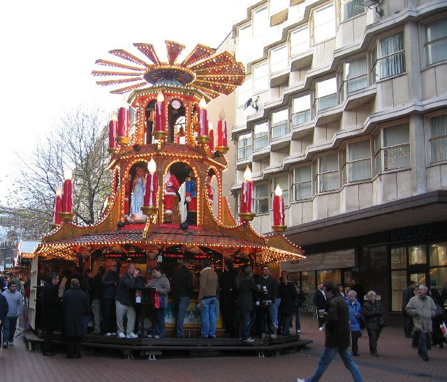 Birmingham Weihnachtsmarkt. The traditional German Christmas market in New Street and Victoria Square is now an annual event in the Birmingham calendar. This is actually a branch of the Frankfurt Christmas market and is the largest of its kind outside of Germany and Austria. As well as a wide variety of Christmas goods on offer there are copious supplies of gluwein and heated snacks on sale to keep out the cold!